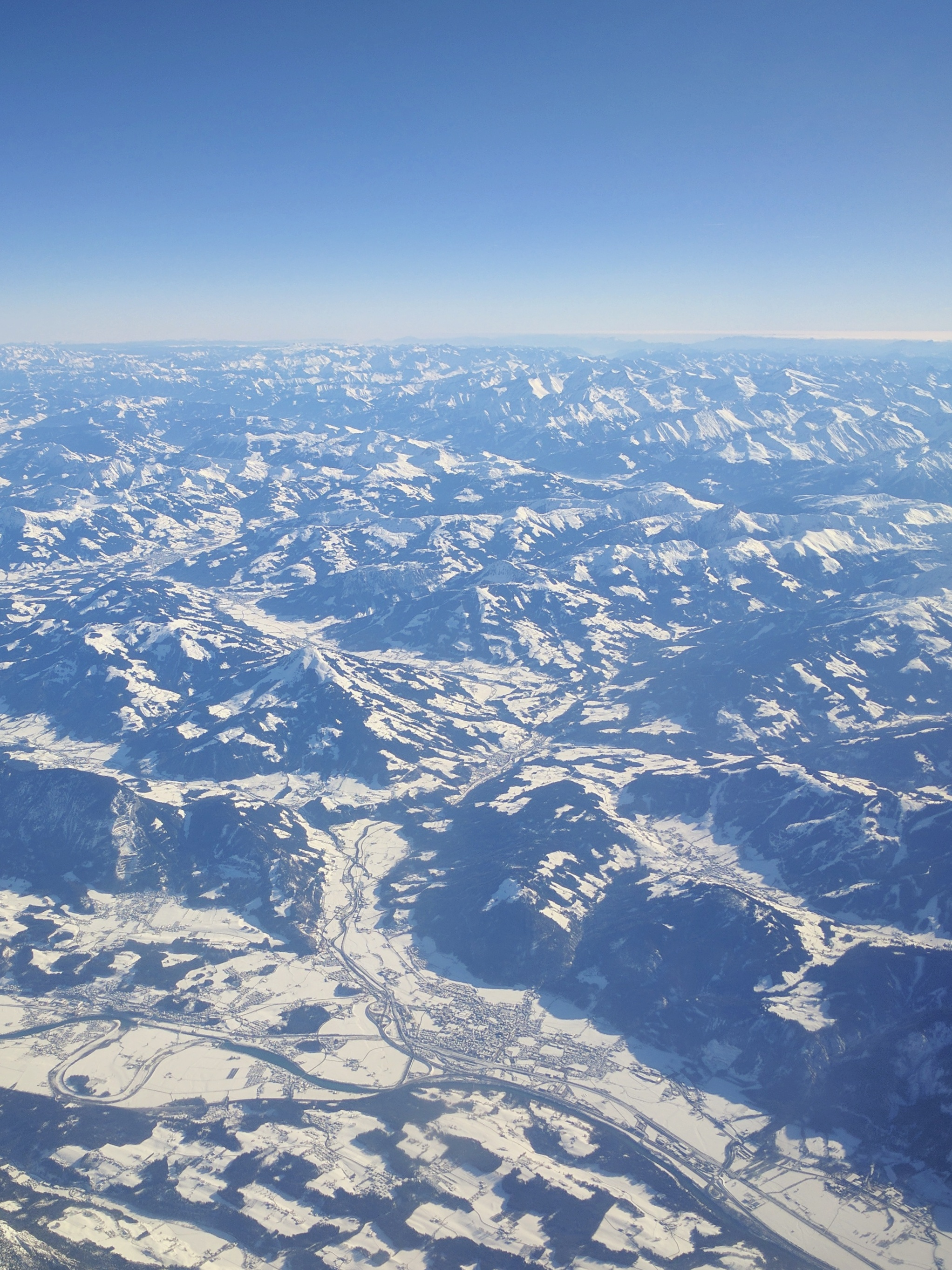 Aerial Image of the Austrian town of Wörgl, embedded in the Alps where the Brixental meets the Inntal.